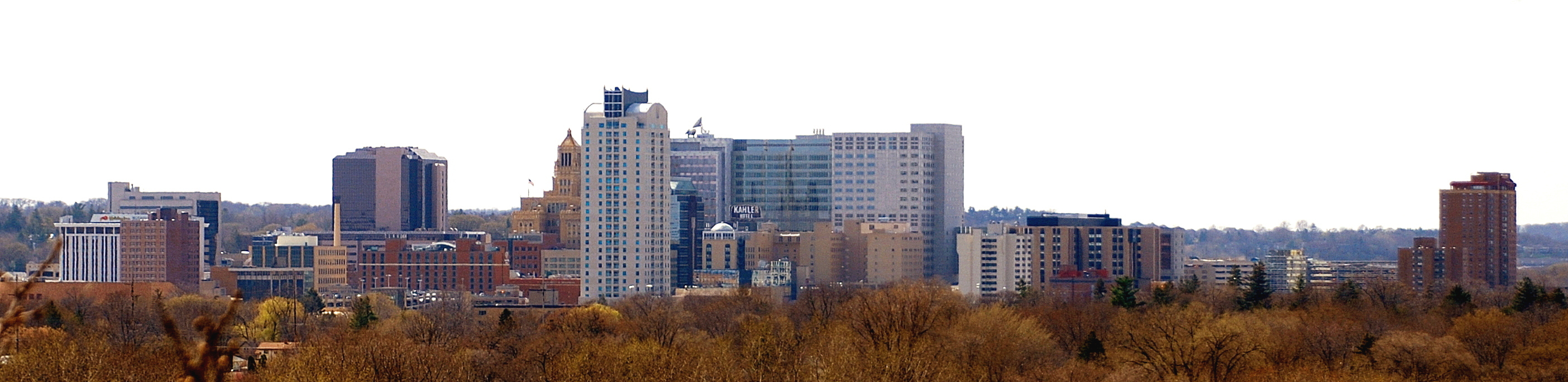 Rochester, Minnesota from Quarry Hill Nature Center